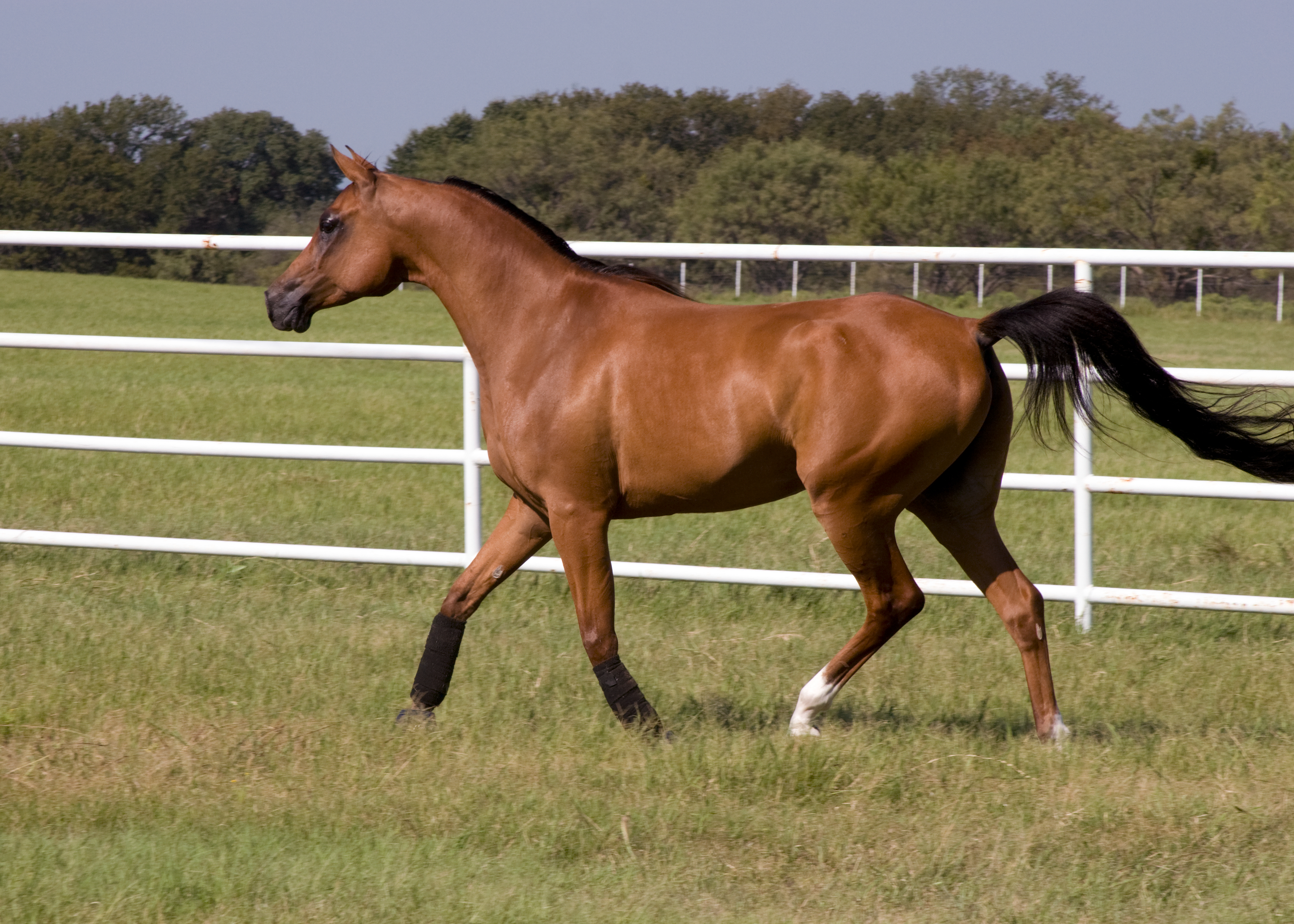 Trotting Arabian gelding